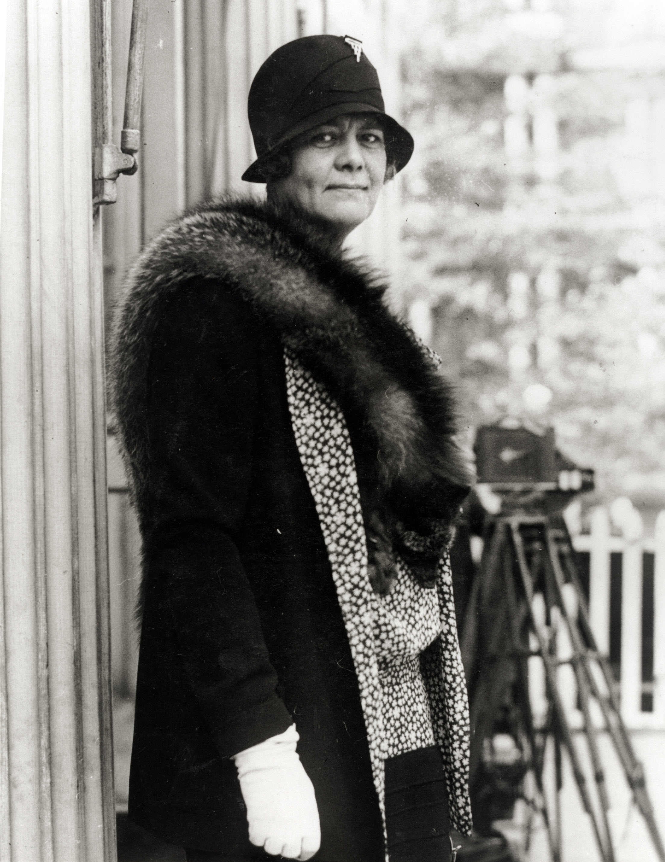 Former Congresswoman Ruth Baker Pratt of New York.